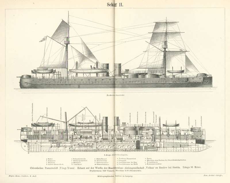 Ship II.